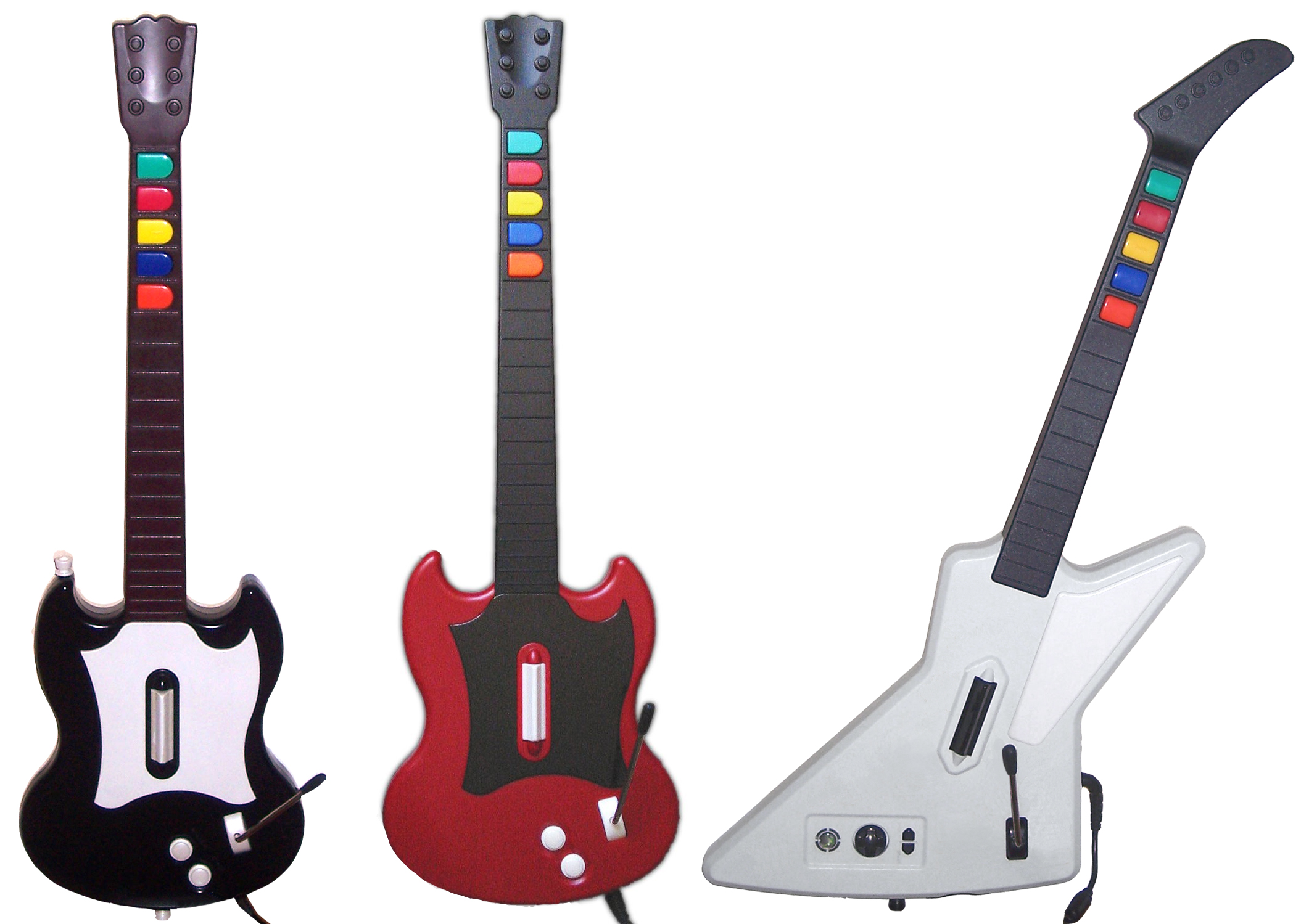 Guitare du jeu Guitar Hero II. Photo of the guitar controller for the Playstation 2 game "Guitar Hero".